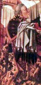 Detail from Bernt Notke's Gregorsmesse showing the donor Canon Adolf Greverade